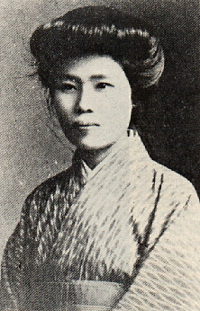 The japanese anarchist feminist journalist, Kanno Suga, hanged in 1911 by conspiration against the emperor